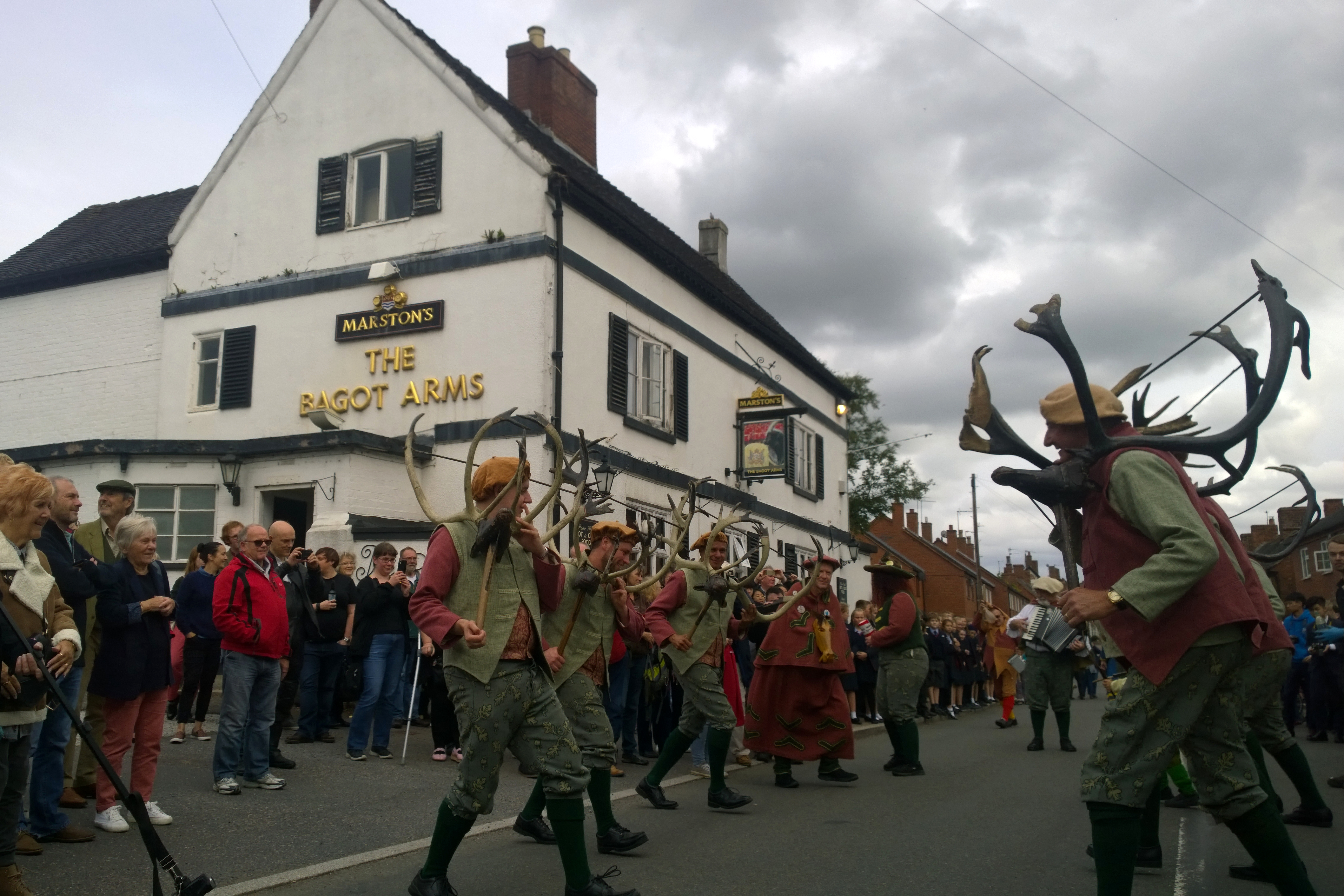 Said to be the oldest folk dance in England it is held in Abbots Bromley, Staffordshire, England. The dance involves reindeer antlers, a hobby horse, Maid Marian, and a Fool. Reminiscent of the film 'The Wickerman'. The reindeer antlers were carbon dated to imply that they must have been brought over by the Vikings. This photo has been taken in the country: United Kingdom